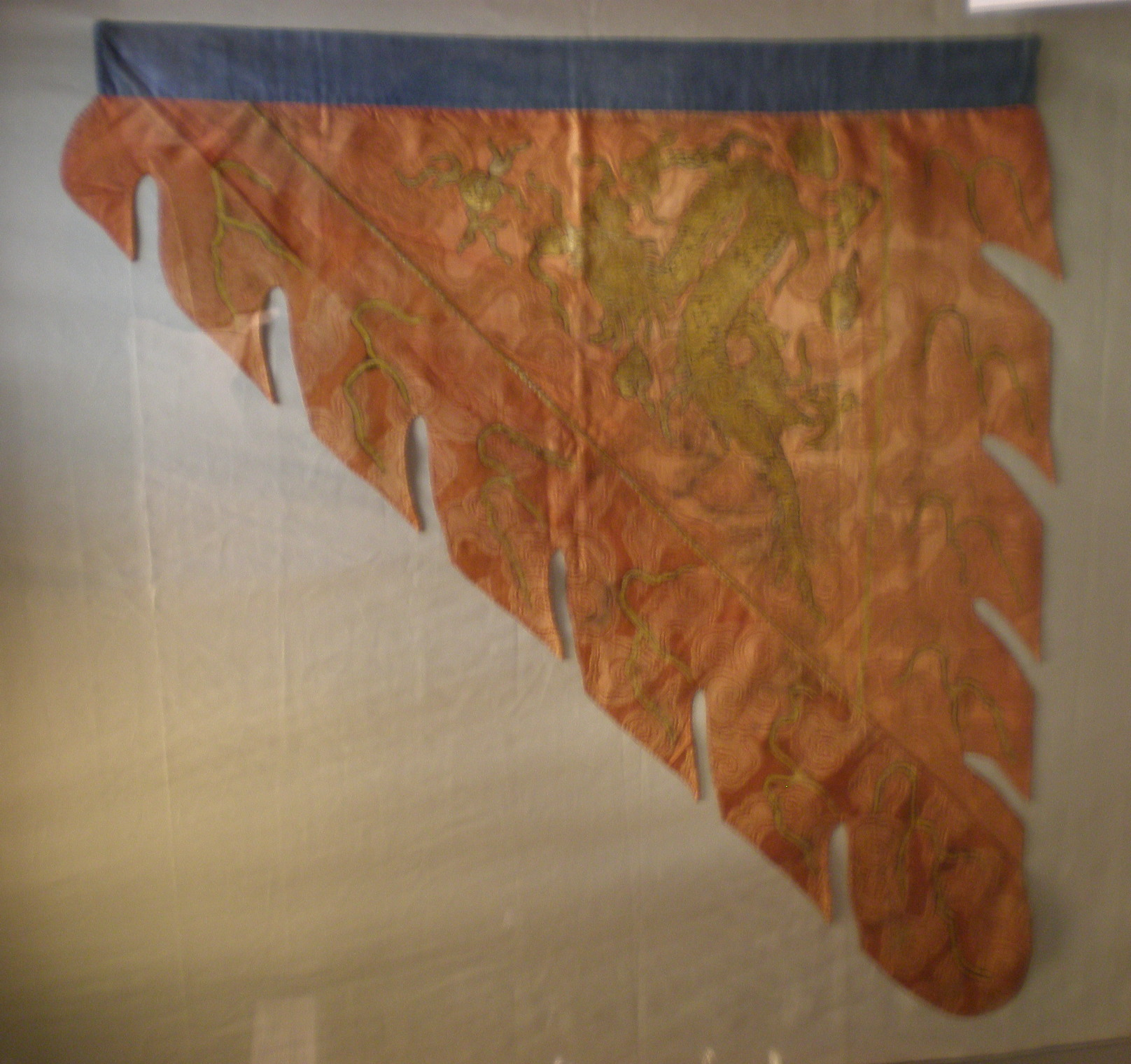 A flag carried by one of the Eight Banners of the Qing Dynasty on display at the Hong Kong Museum of Coastal Defence.